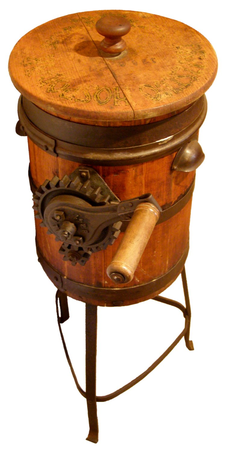 Historic churn